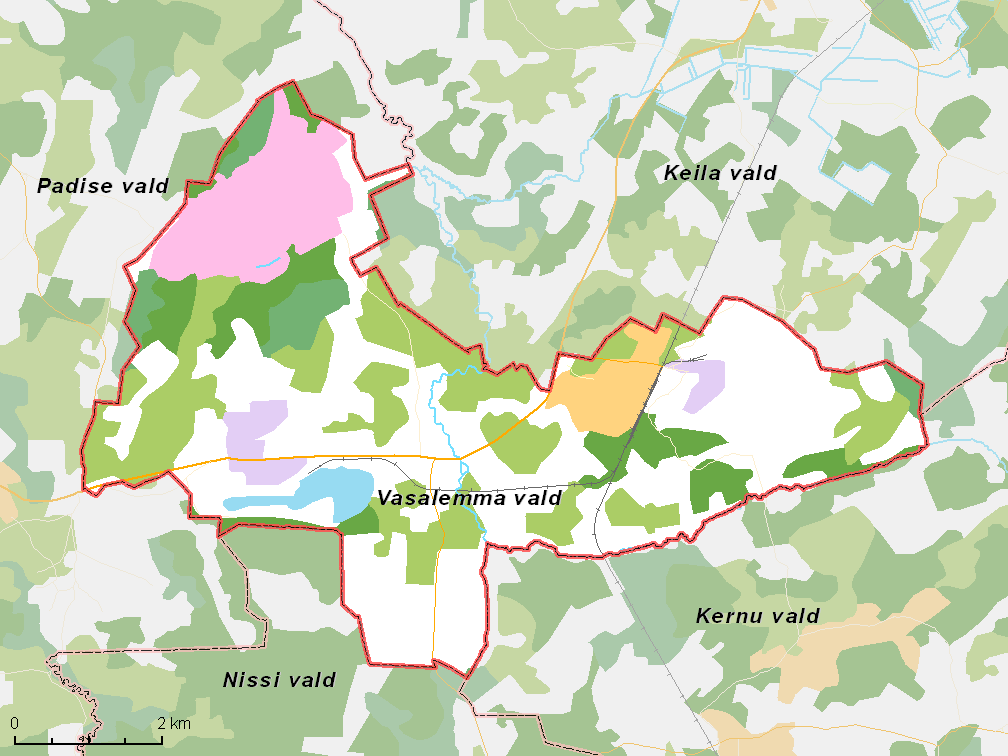 Map of municipality in Estonia